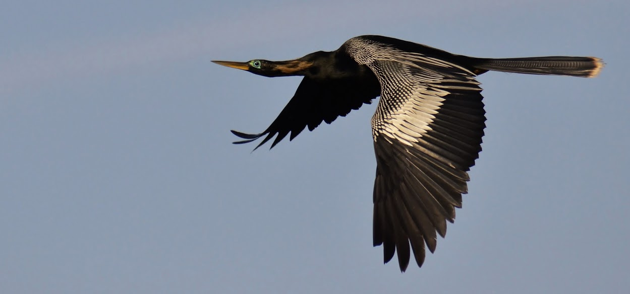 Taken by Gareth Rasberry, Huntington Beach State Park, Murrells Inlet, South Carolina, USA